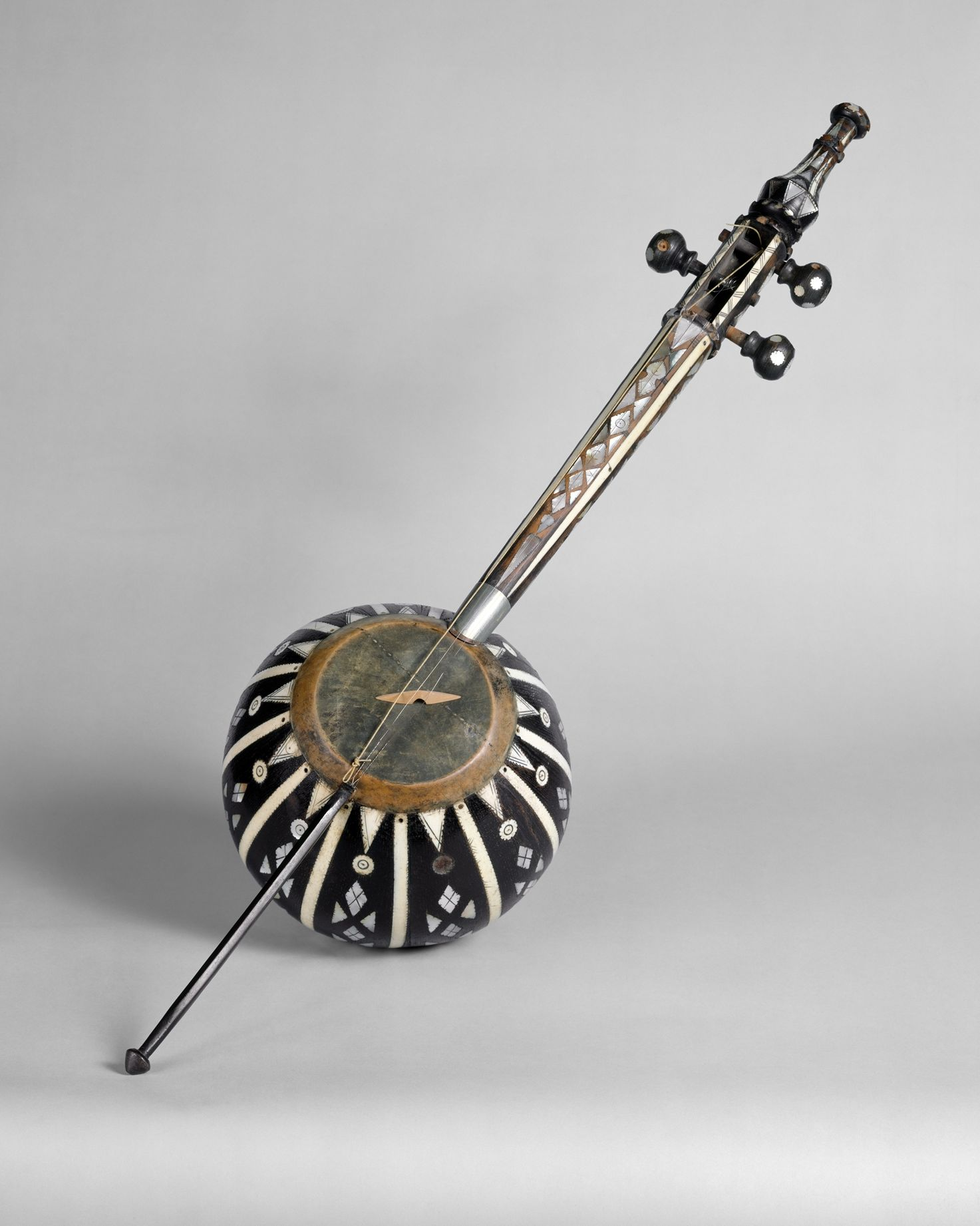 Iranian (Persian); Kamanche; Chordophone-Lute-bowed-unfretted